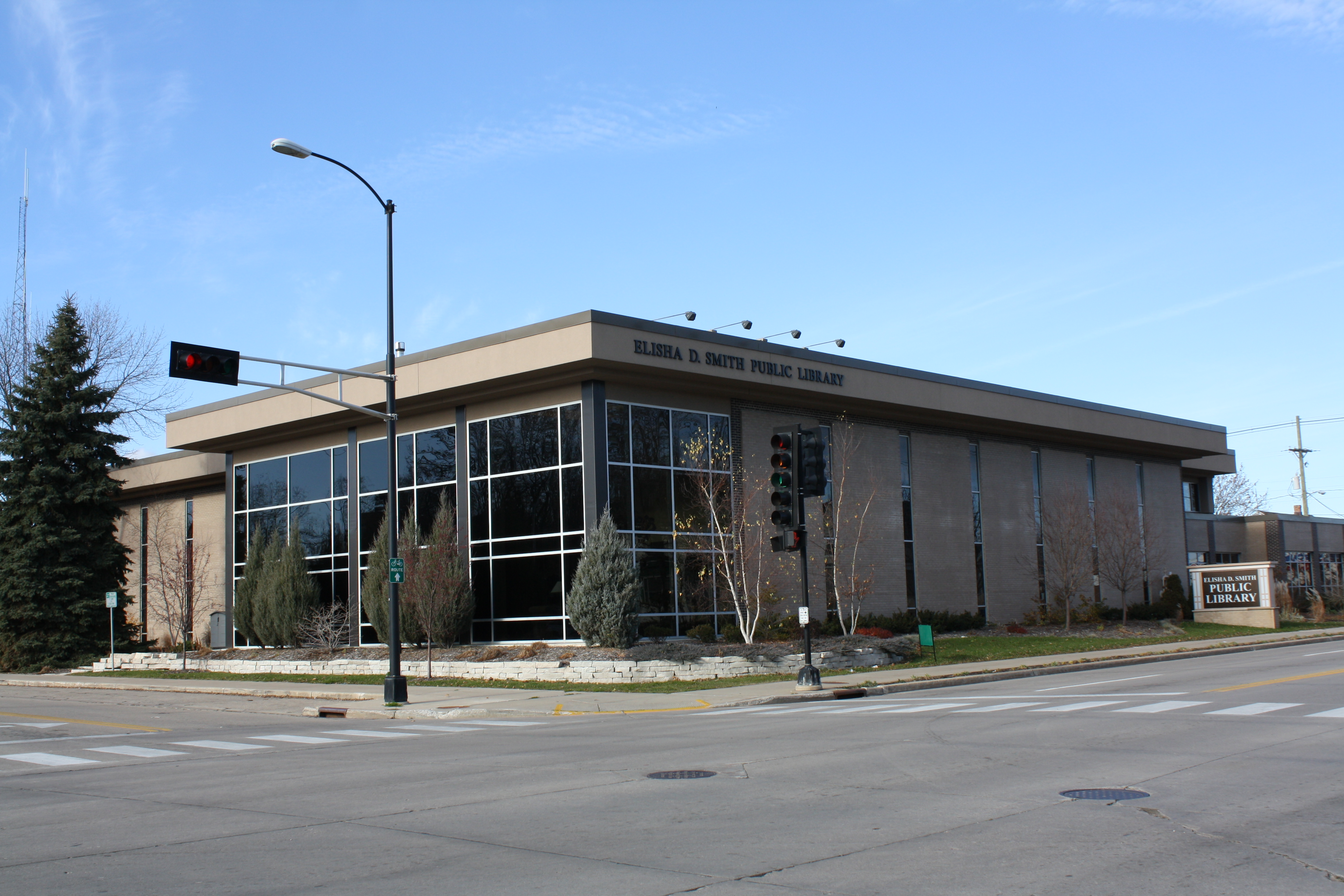 The Elisa D. Smith public library in Menasha, Wisconsin.